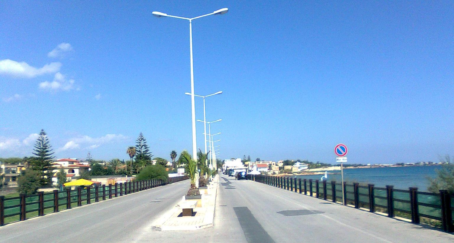 View of Lido di Noto, District of Noto, Sicily, Italy